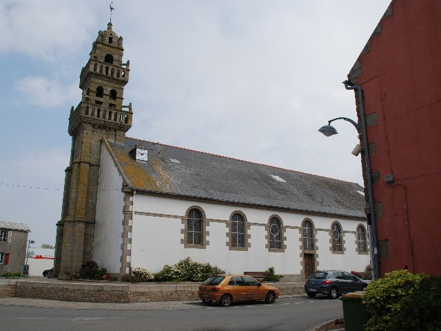 Landéda, Bretagne; Church Saint-Congar